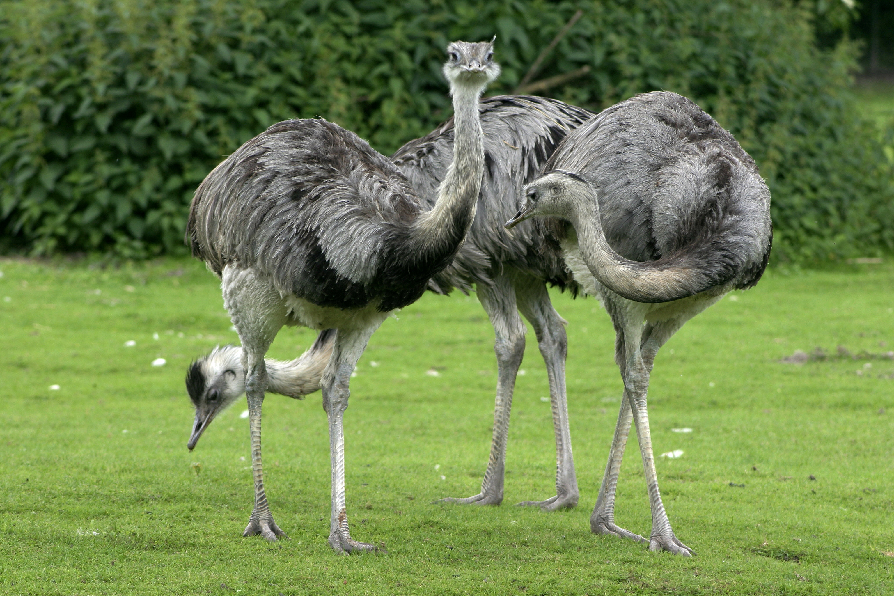 Greater Rheas (Rhea americana)